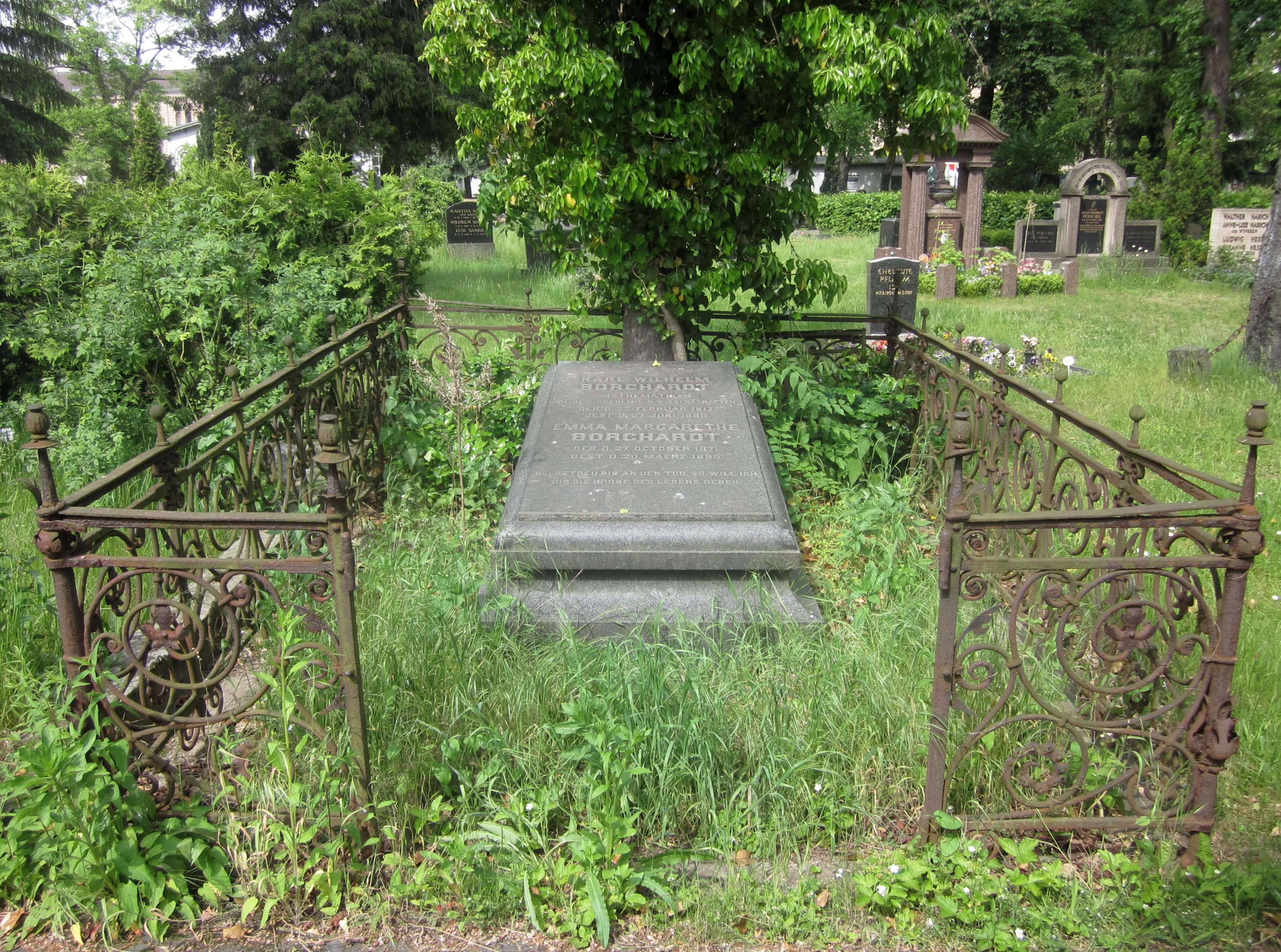 Grave of the mathematician Karl Wilhelm Borchardt (1817-1880) on the Cemetery III of the Jerusalem and New Church (Cemeteries in front of Hallesches Tor) at Mehringdamm No. 21 in Berlin-Kreuzberg.